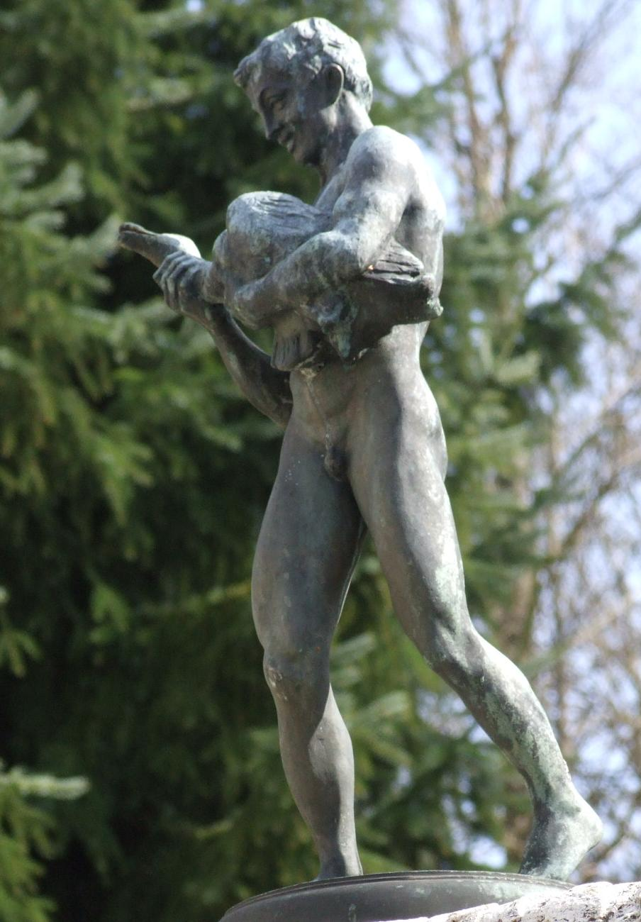 Markneukirchen, in April 2008.Music instrument museum . Male nude having trouble with a duck. On top of a fountain, the work of Dr Hans Schuster of Markneukirchen. Constructed in 1902 in Rome. The plinth is made of Traventine, and contains a recycled Etruscan column from circa 200 B.C. de: Der ganze Brunnen ist ein werk des Markneukirchner Bildhauers Dr Hans Schuster. Hier oben, der Kerl hat viele spass mit einer Gans oder Ente! Der wurde aus Muschelkalk in Rom 1912 gebaut. Die obere Säule stammt aus der Zeit der Etrusker 200 v. Chr.